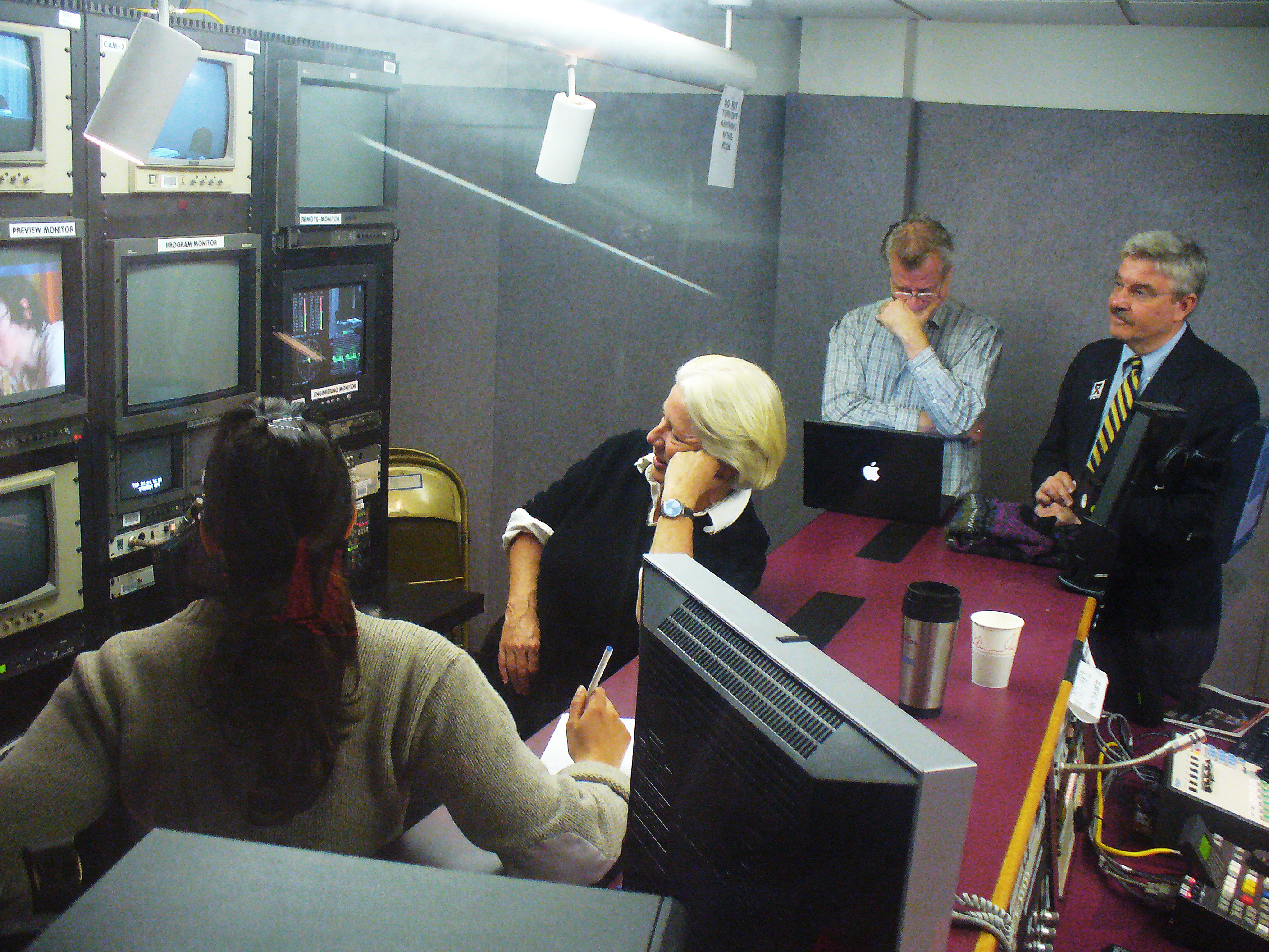 Gay USA production studio by David Shankbone